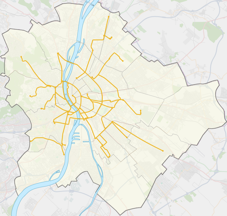 Map of the tramway network of Budapest